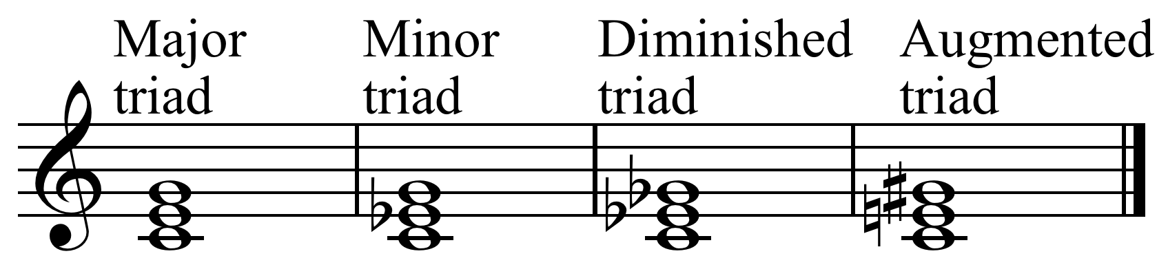 Description of triads